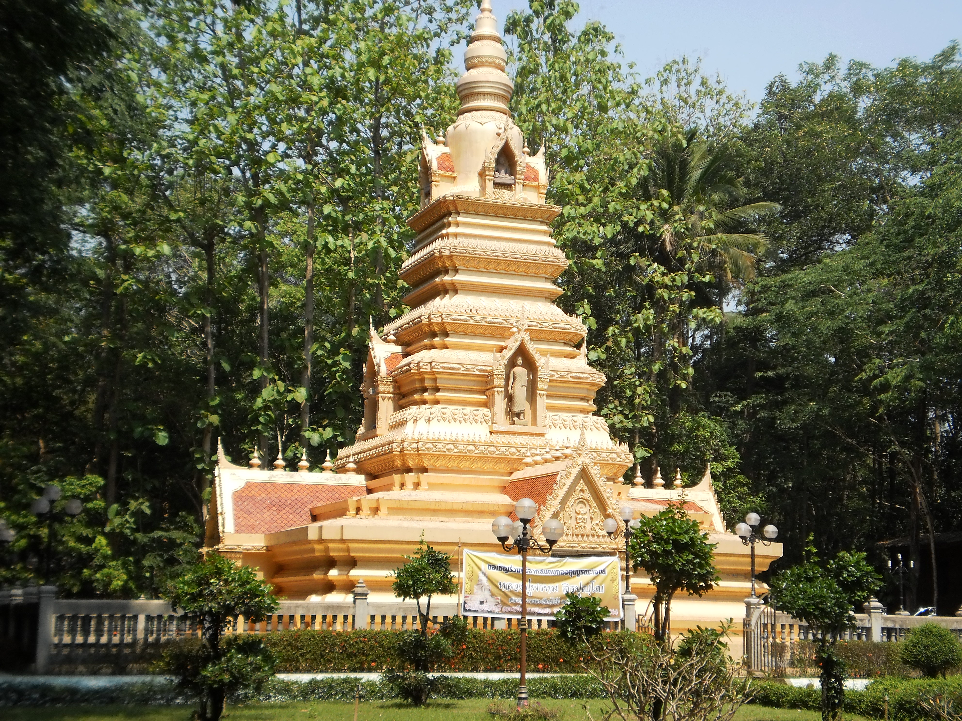 Pagoda at BAn Dong Sawang